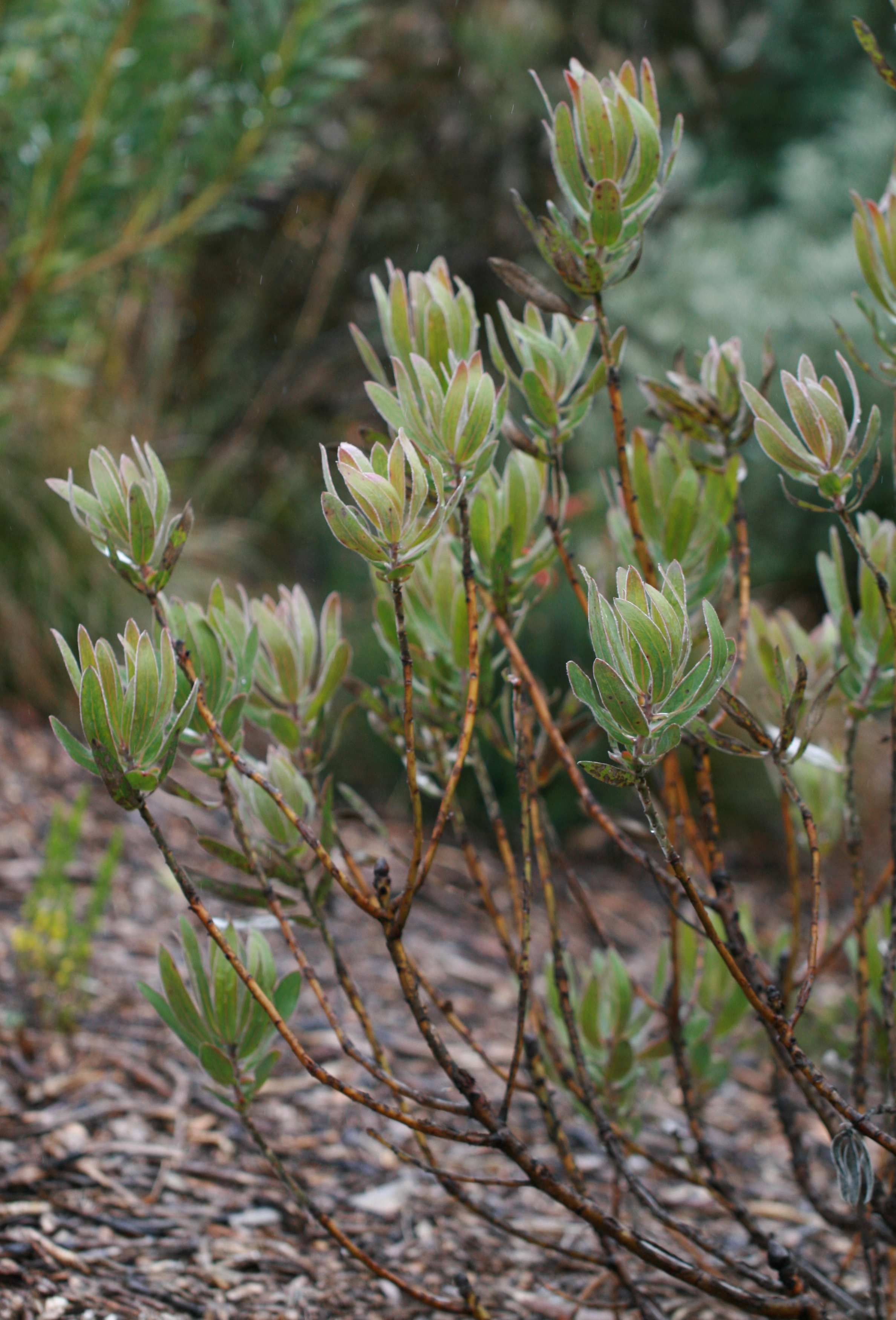 Protea compacta leaves. At the Mount Tomah botanic gardens, NSW, Australia.